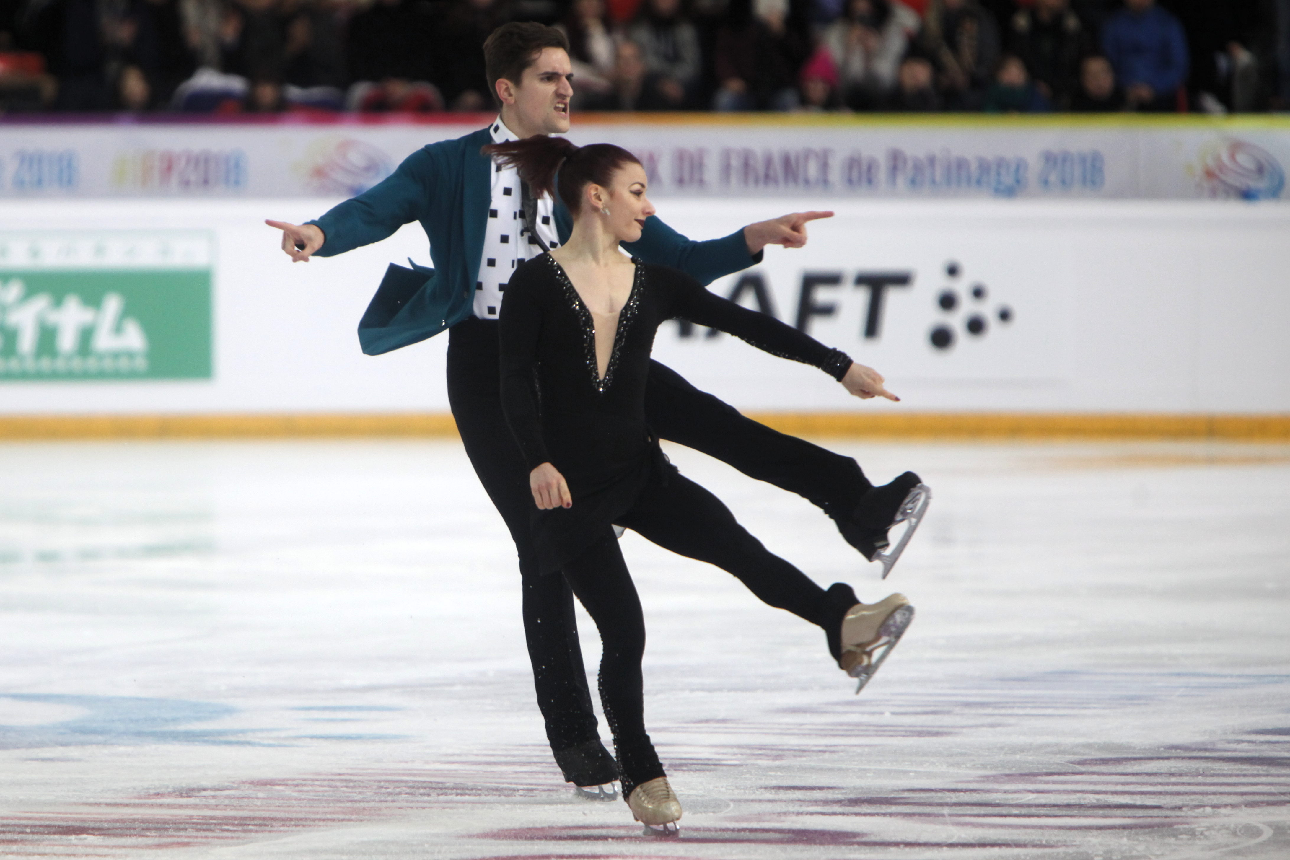 Marie-Jade Lauriault and Romain Le Gac during the Free Dance at the Internationaux de France de Patinage 2018.